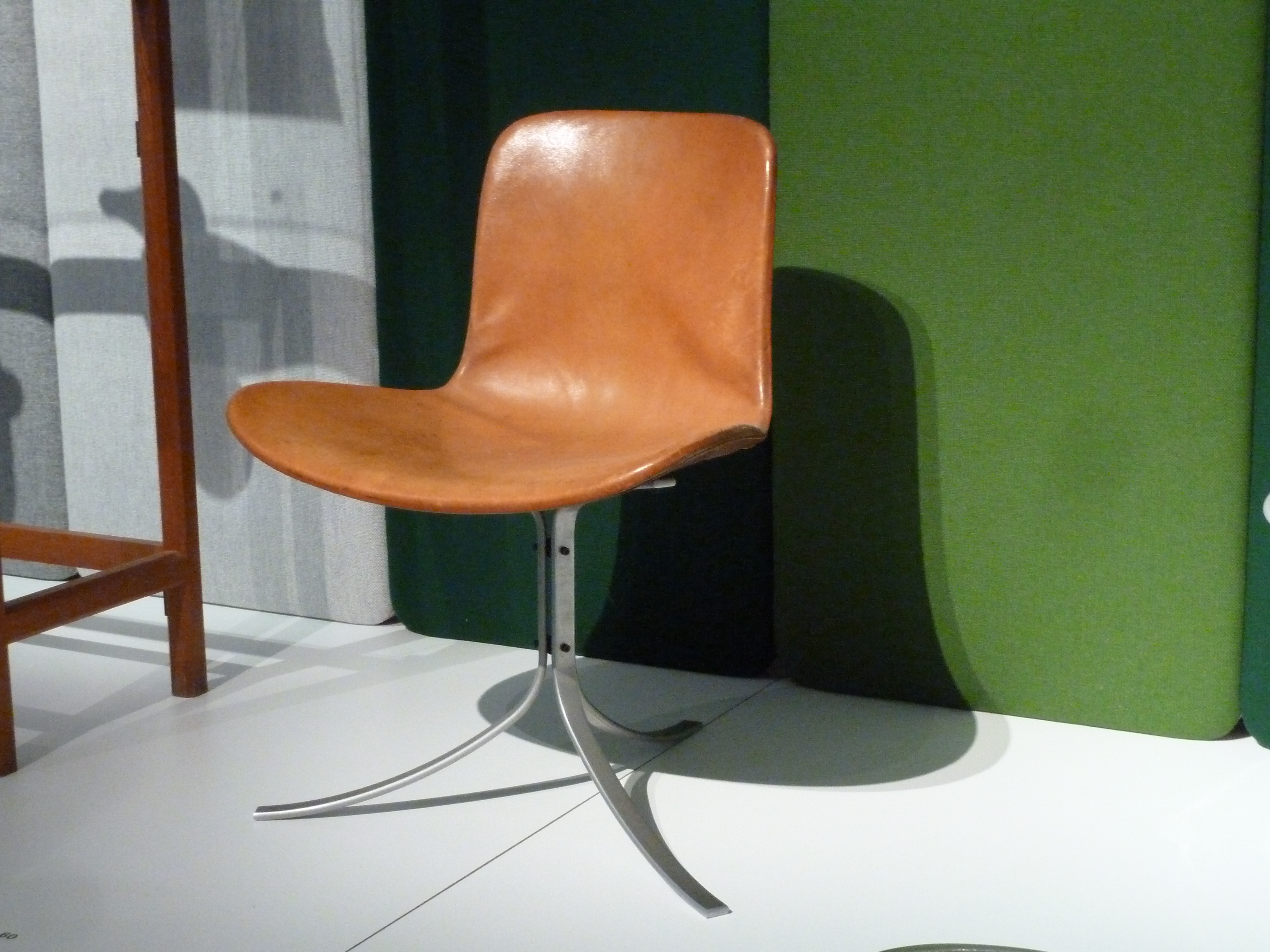 Poul Kjærholm's PK 9 exhibited in Designmuseum Denmark. Designed in 1960.